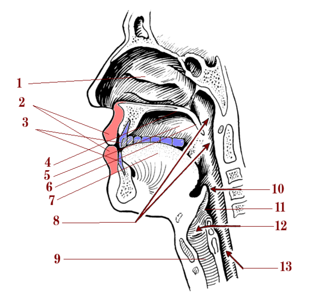 Head & neck. Mouth, larynx, tongue, teeth, epiglottis, pharynx...(1. Nose; 2. Lips; 3. Teeth; 4. Palate; 5 Hard palate; 6. Soft palate; 7. Tongue; 8. Pharynx; 9. Larynx; 10. Epiglottis; 11. 12. Vocal folds; 13. Esophagus). Diagram via